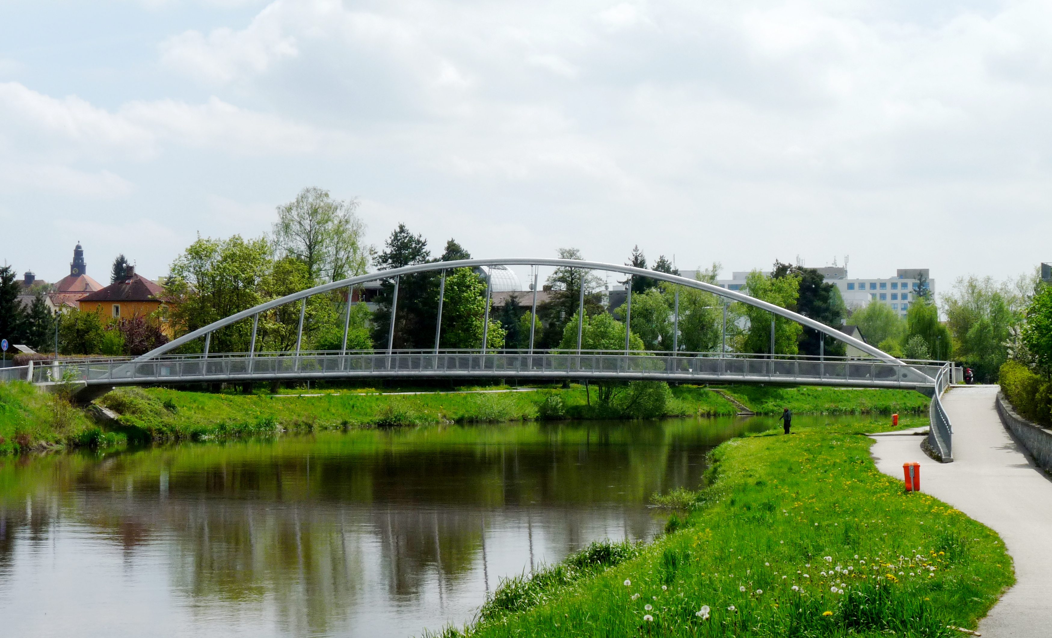 Emila Pittera Bridge over the Vltava river in České Budějovice, South Bohemian Region, Czech Republic.